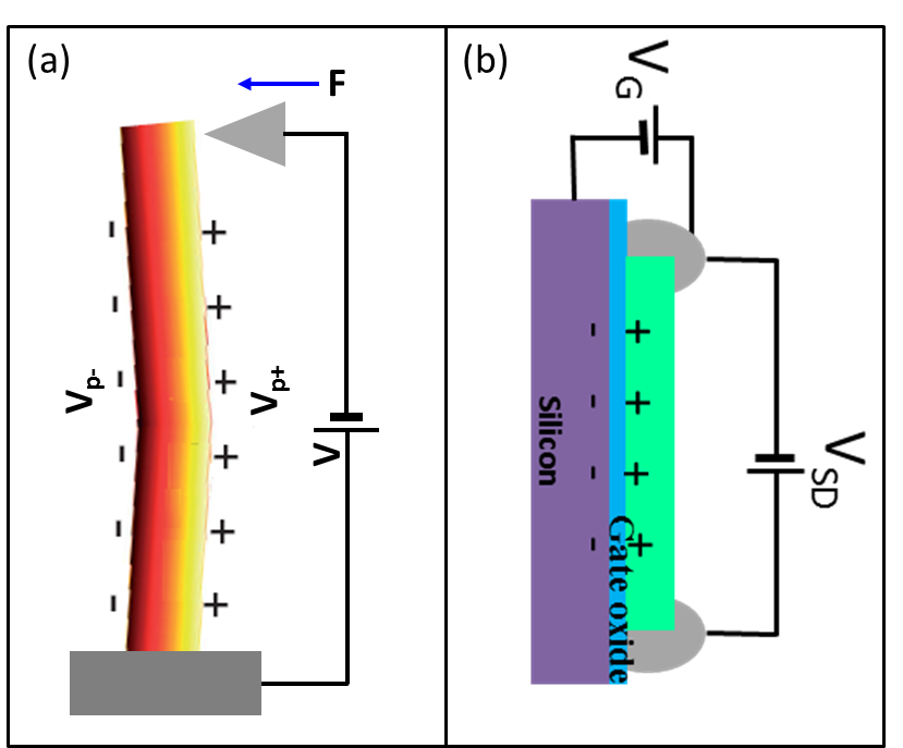 piezotronics 2